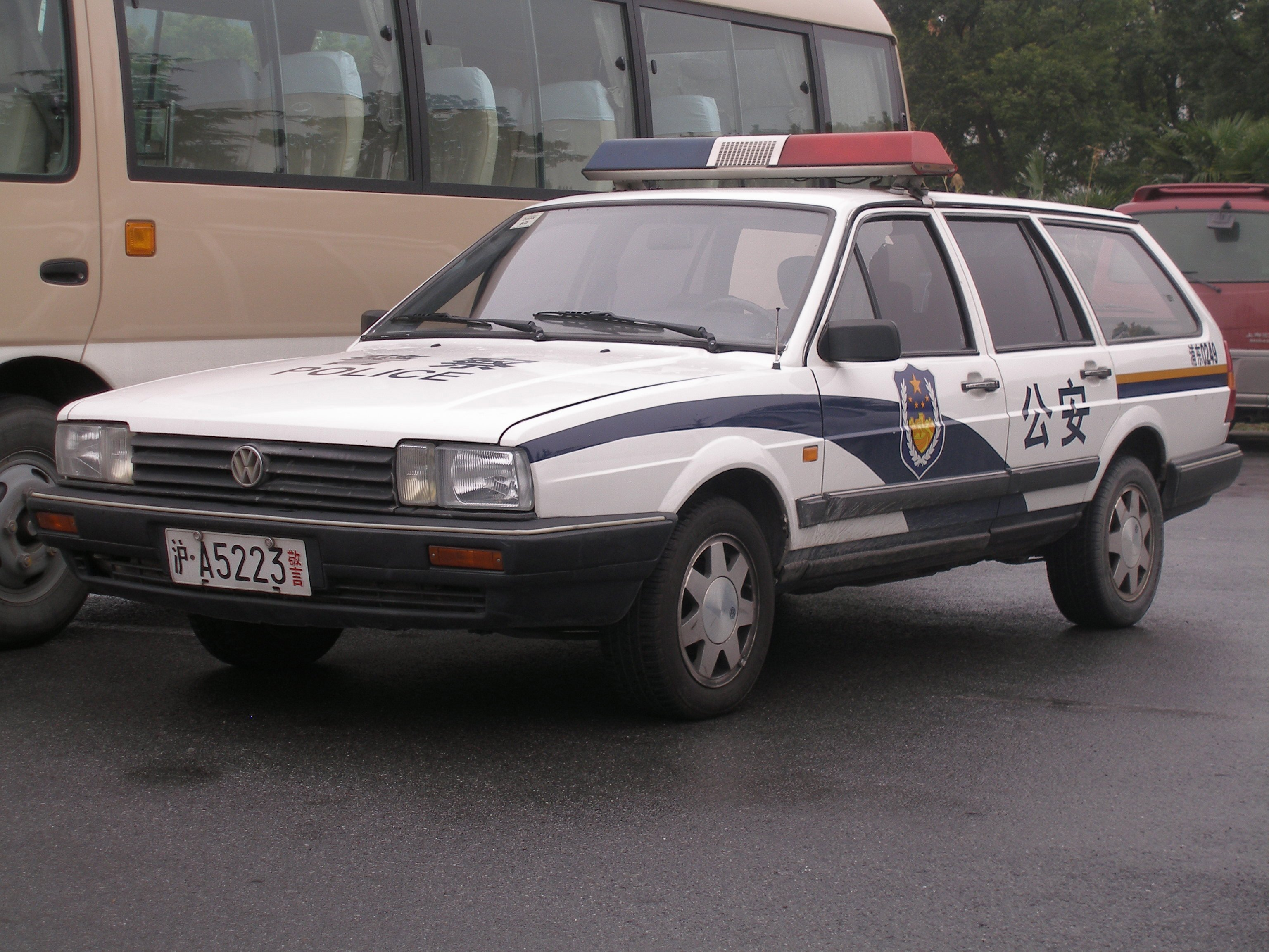 Chinese Volkswagen Santana station wagon, in Shanghai.